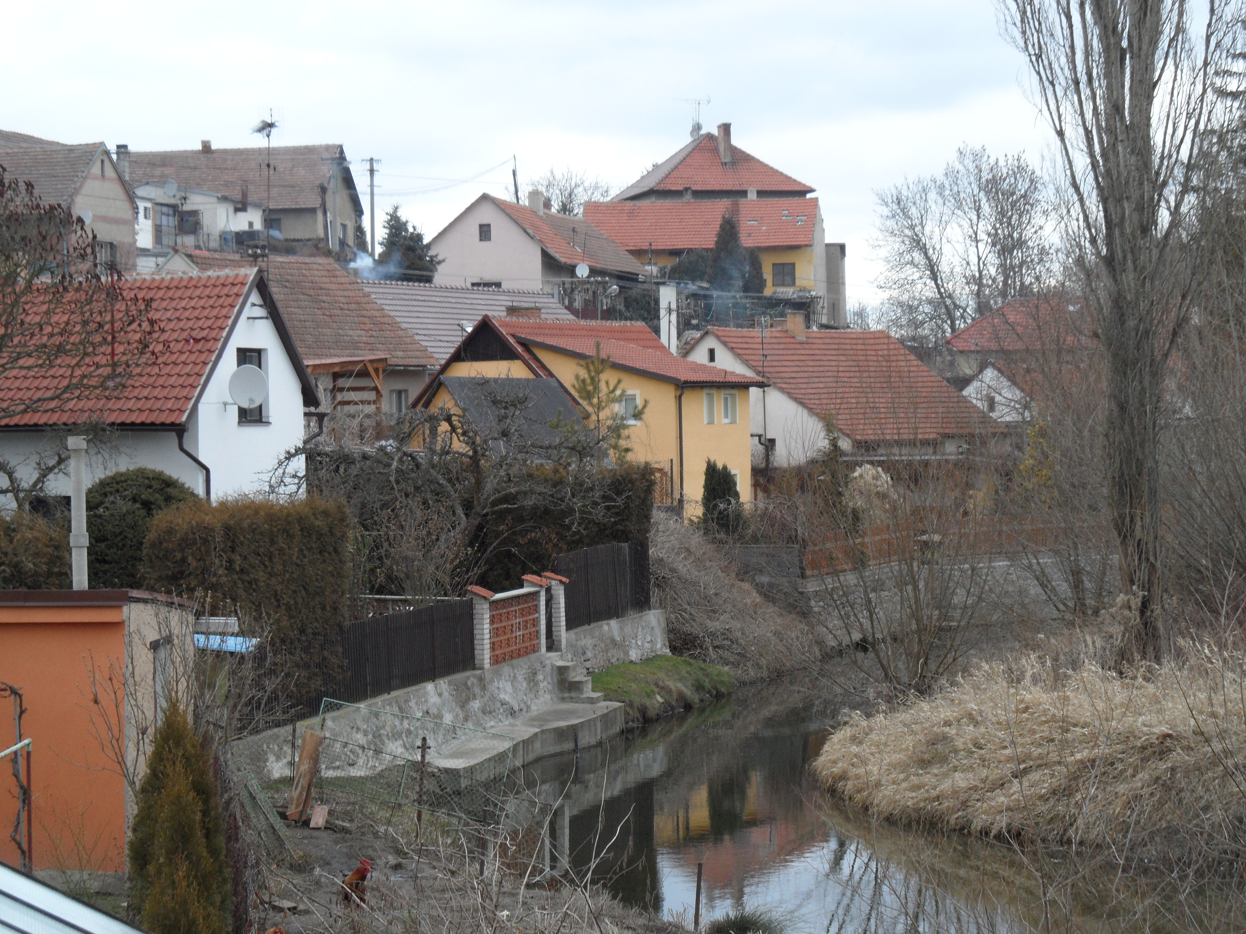 Žabonosy H. Houses in the Centre of Village, along Miletínský Creek, Kolín District, the Czech Republic.